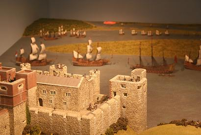 I [Polylerus] took this picture May 2006 in a museum in England. This model portrays Upnor Castle when the castle went into battle against the Dutch who made a raid against the English. The Model was made by John Wylie, and used 1300 LEDs and 36 stage lights and computer controlled sound track to create the effect of the battle. The model took a year to make.....and was commissioned by the Rochester Guildhall Museum in Kent (England). Text [description] edited by John Wylie 14th May 2007